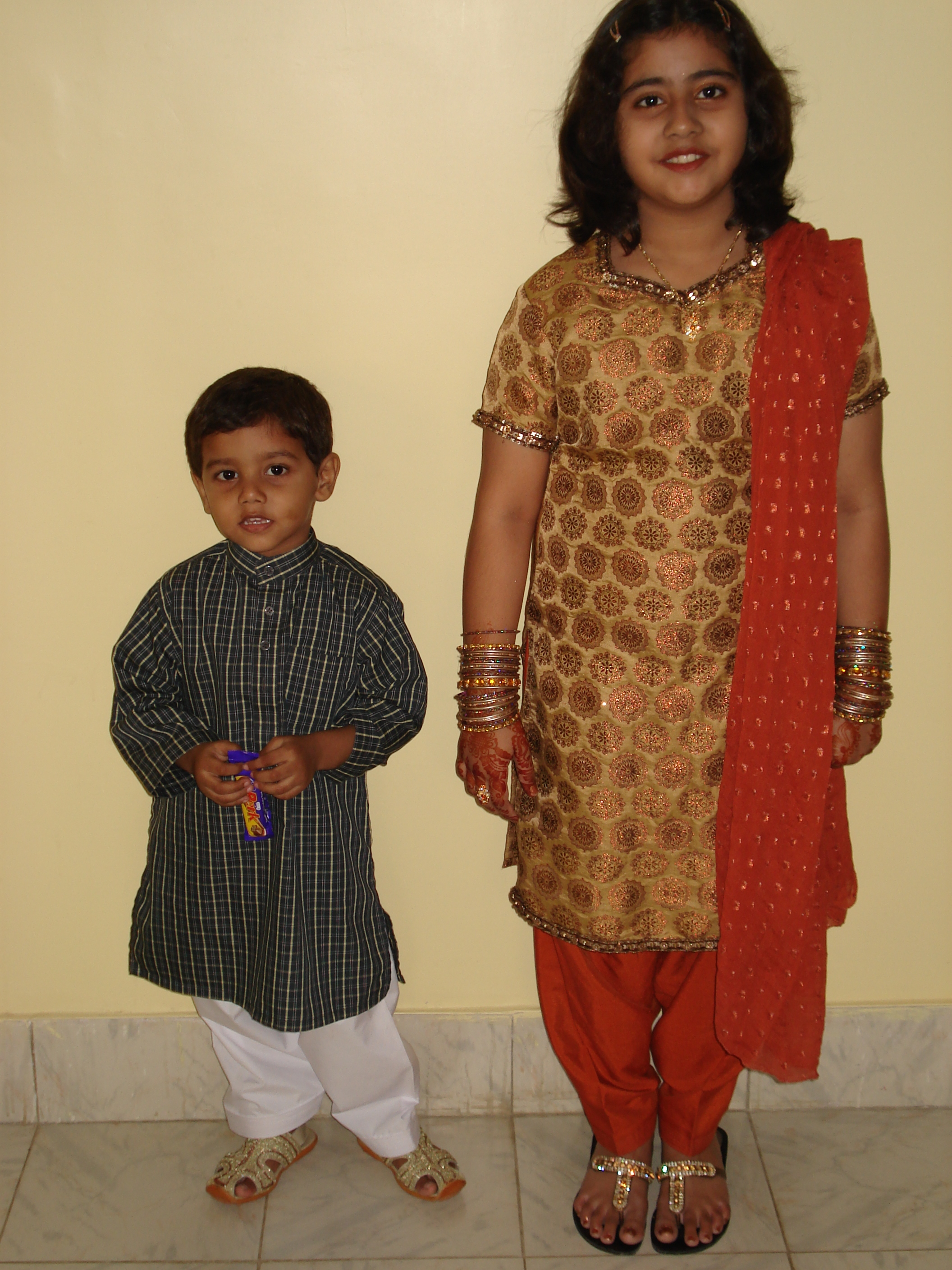 Pakistani dress for girls and boys , shalwar kameez, baby ayesha ansari and osman ansari